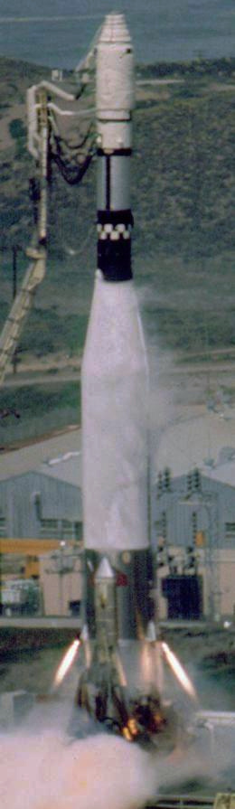 Launch of Atlas SLV-3 Agena D rocket with satellite KH-7 26.